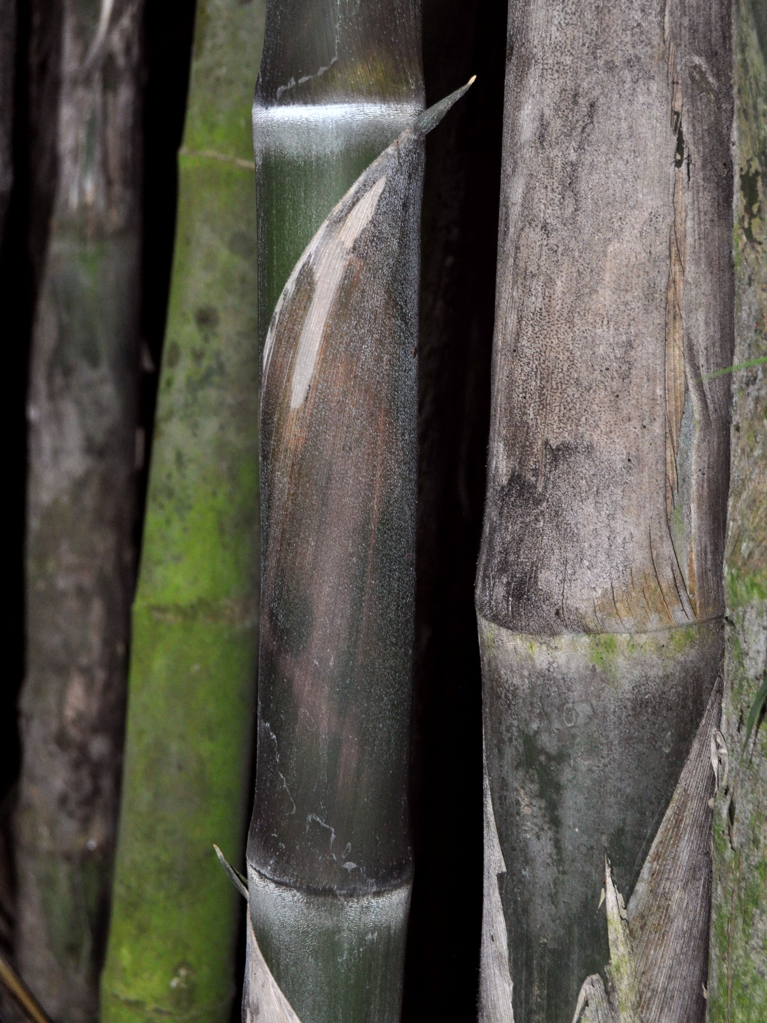 Thai bamboo, Thyrsostachys siamensis, white ring at nodes. From Bogor, West Java, Indonesia.